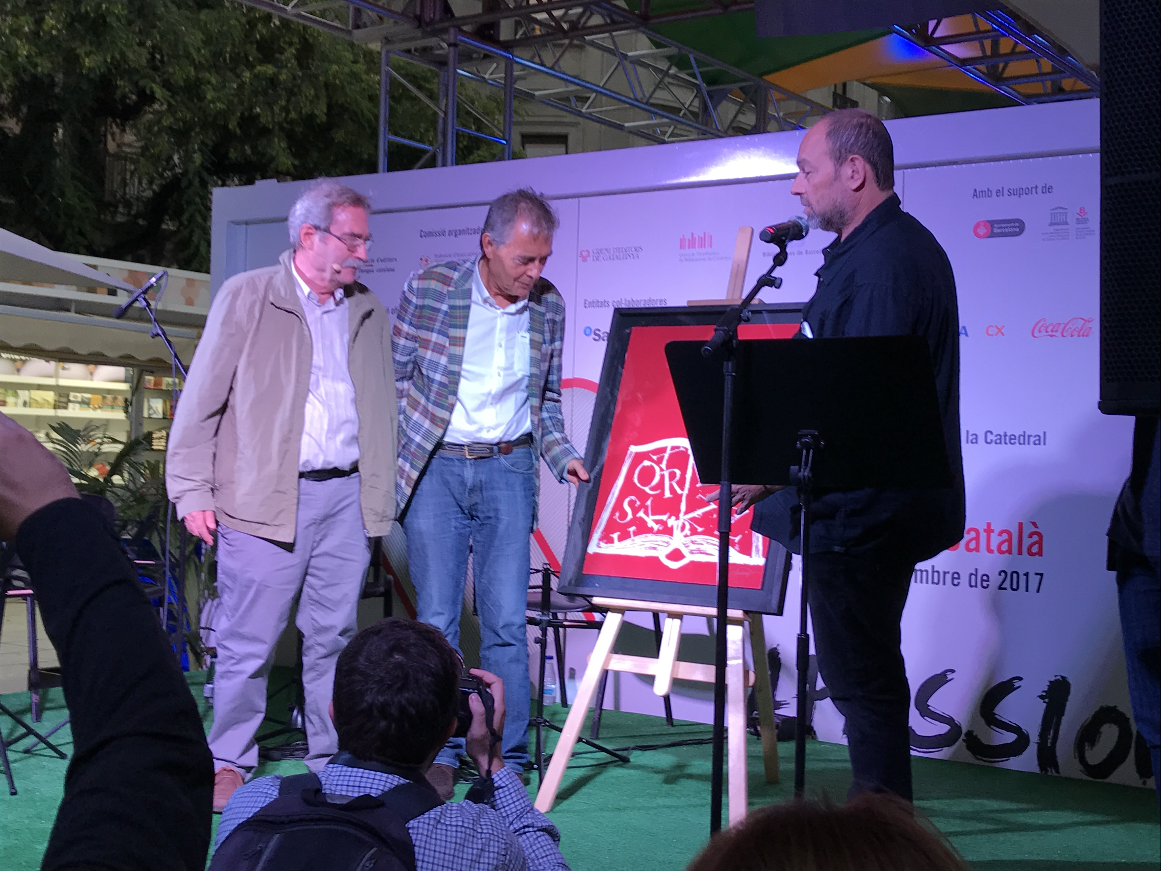 Writer Jaume Cabré and painter Joan-Pere Viladecans in La Setmana del Llibre en Català, Barcelona 2017.